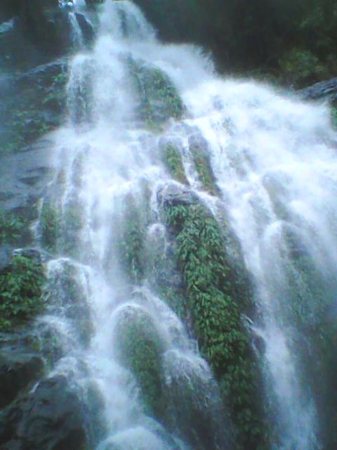 Agpay Falls formerly known as Pinsal located at San Nicolas, Pangasinan, Philippines